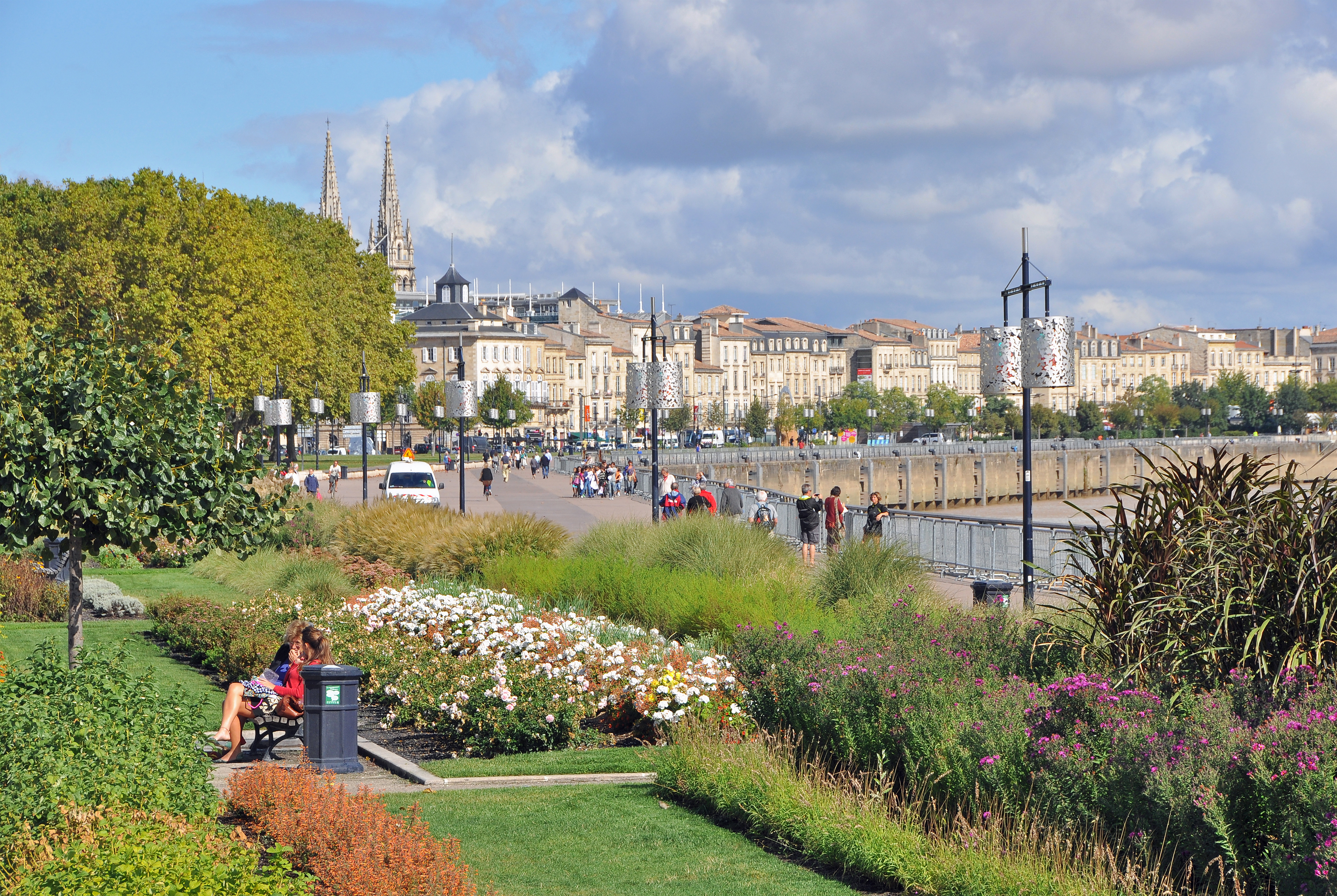 Bordeaux (France): the Quai Louis XVIII